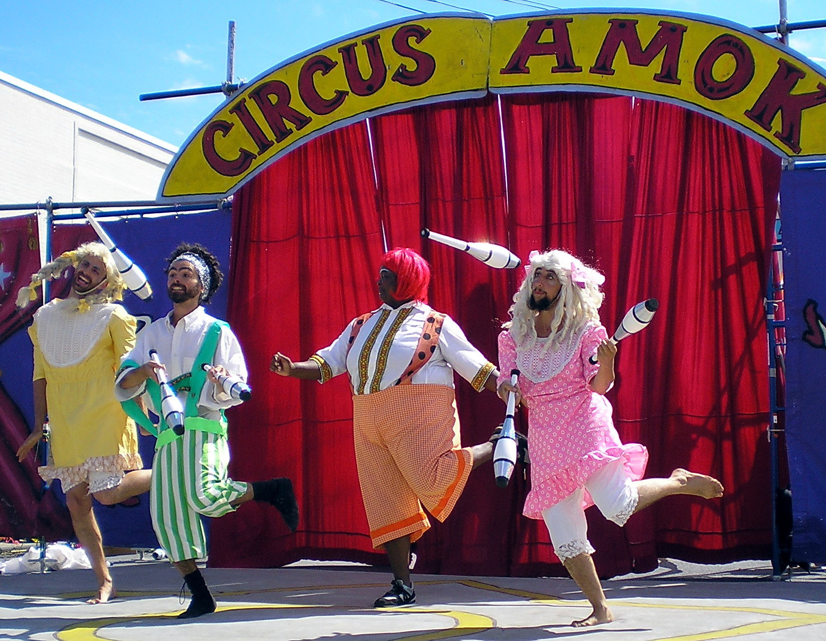 Circus Amok Jugglers by David Shankbone, New York City